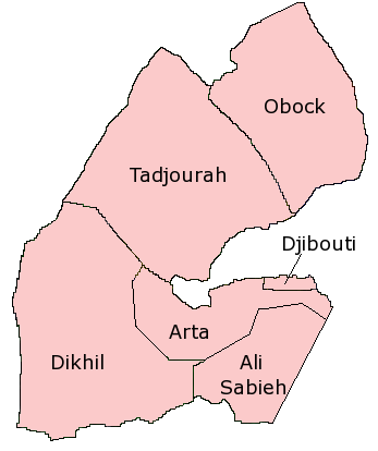 Map of the Regions of Djibouti; created with the GIMP. Made by User:Acntx.